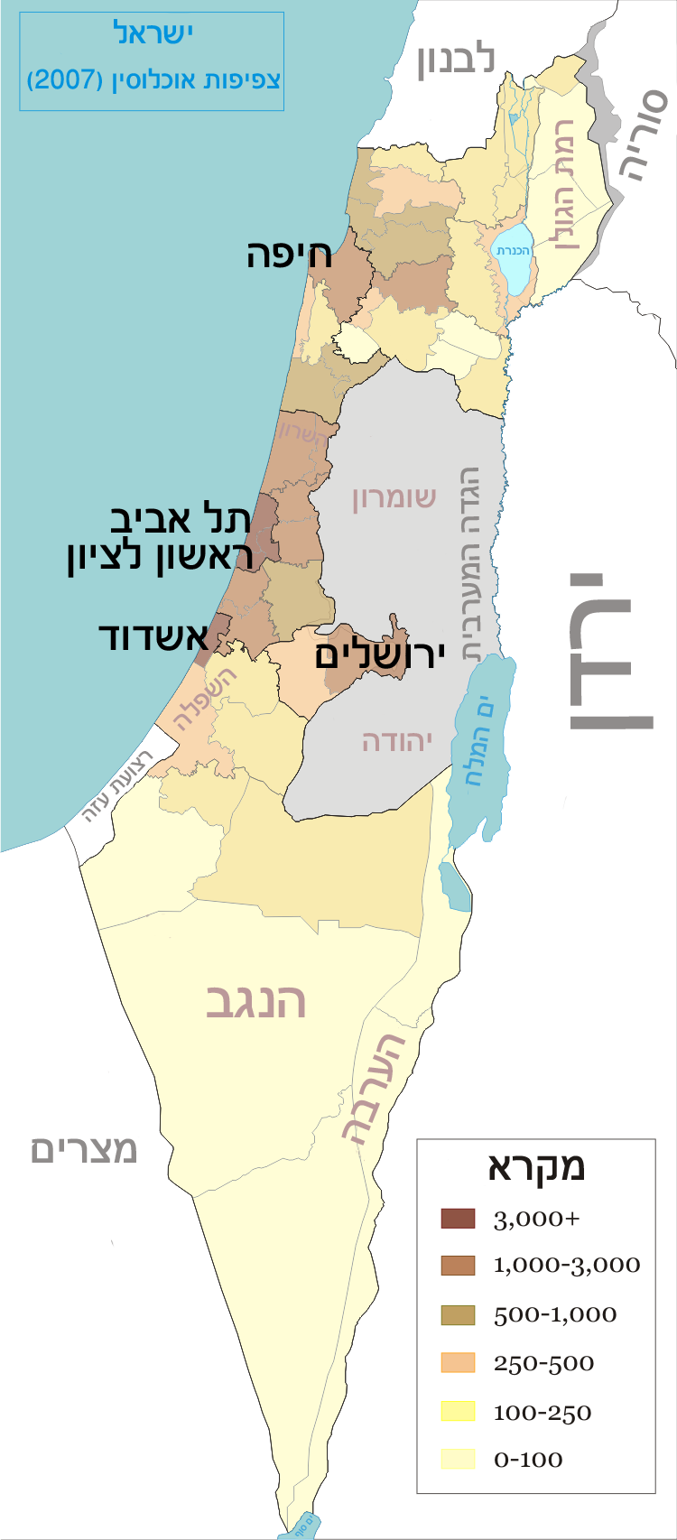 Population density of Israel by geographical region, as defined by the government and CBS.